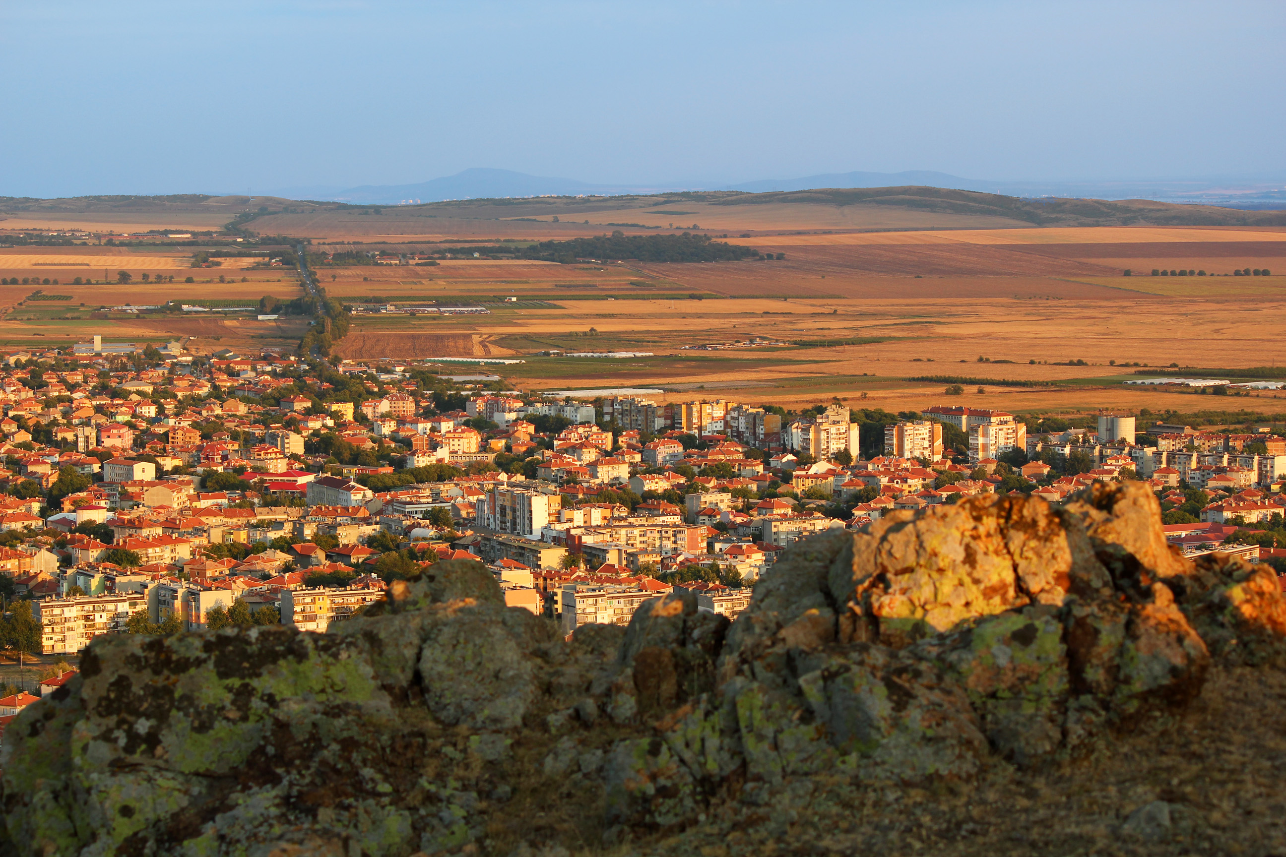 View of Aytos from Hisarya Peak